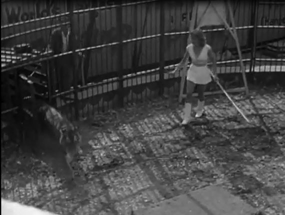 Tigress in a circus